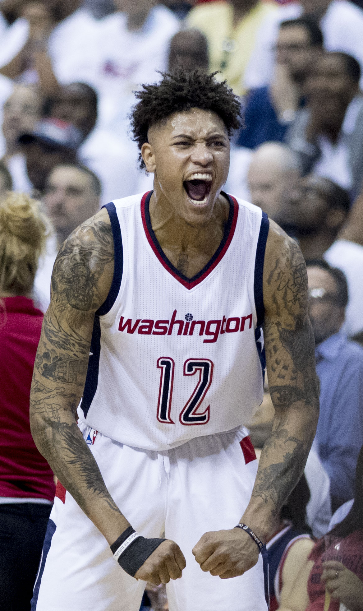 Hawks at Wizards Round 1 Playoffs 4/16/17